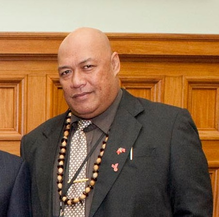 Lealailepule Rimoni Aiafi at the Pacific Parliamentary and Political Leaders Forum lunch in Wellington, NZ, 2013